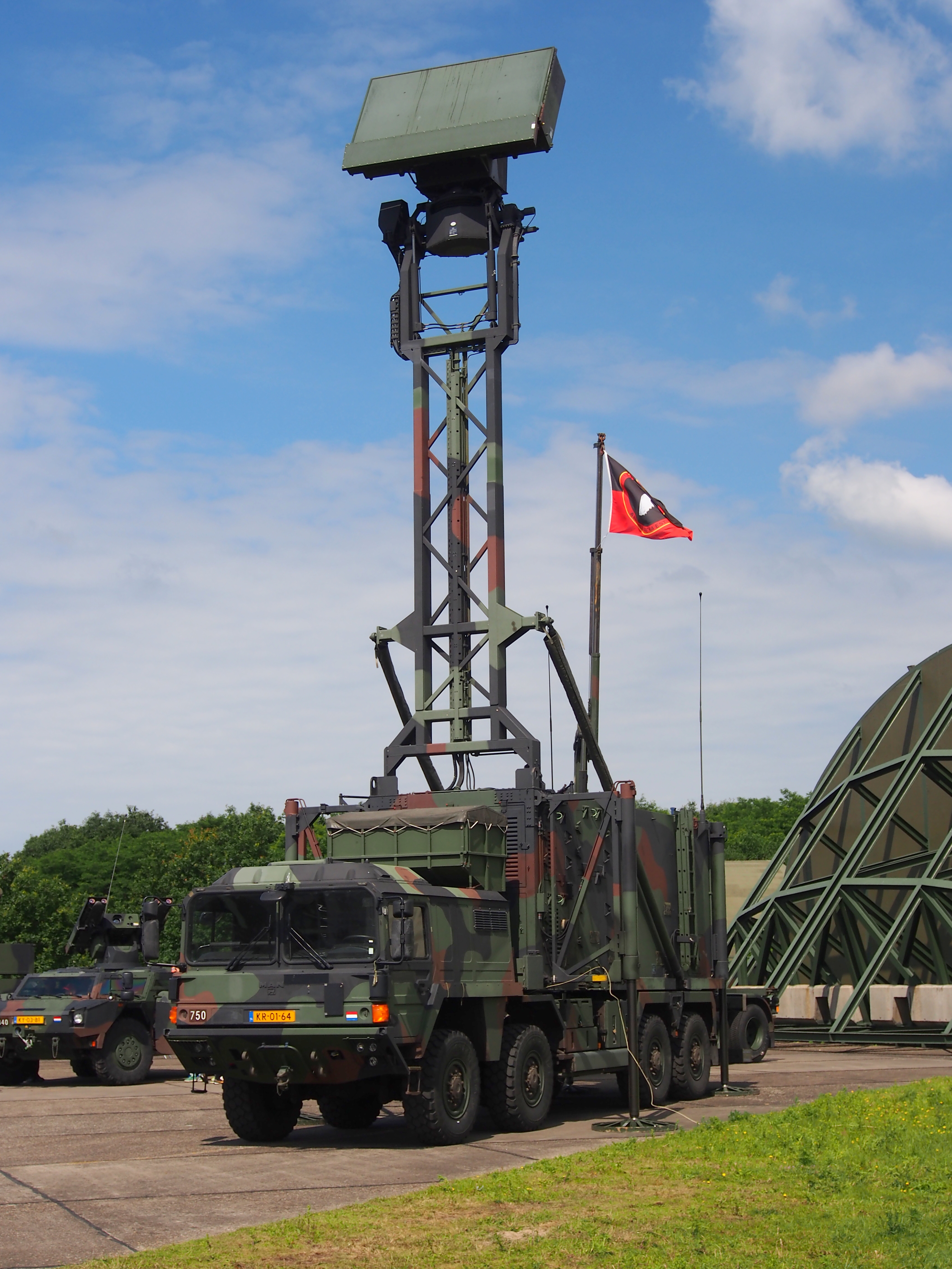 Photographed at Gilze-Rijen Air Base ( IATA=GLZ, ICAO=EHGR), The Netherlands.